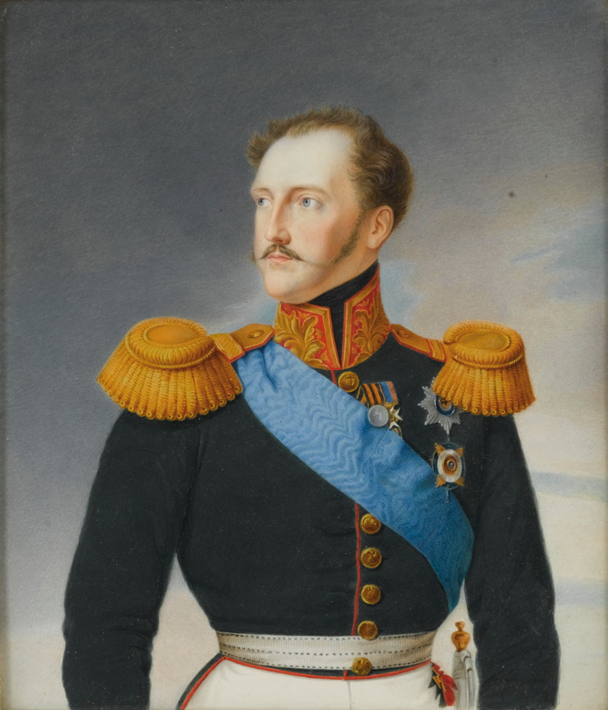 Portrait of Emperor Nicholas I of Russia, Attributed to Iwan Winberg, circa 1830 wearing dark uniform with red collar and gold lace, with the sash and star of the order of St. Andrew First Called, the Star of the order of St. Vladimir and two other decorations, sky background, framed height 17cm